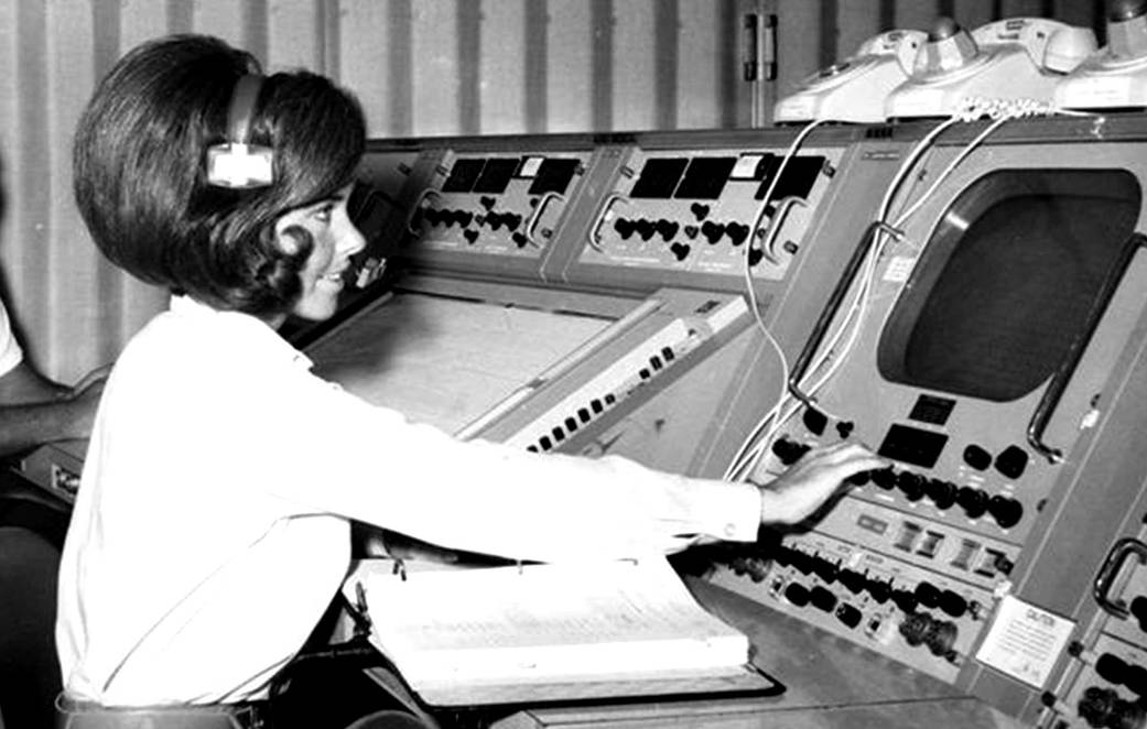 Judy Sullivan shown at the console in the Kennedy Space Center's Manned Spacecraft Operations Building she would operate during the Apollo 11 mission as she monitored the medical condition of the astronauts.